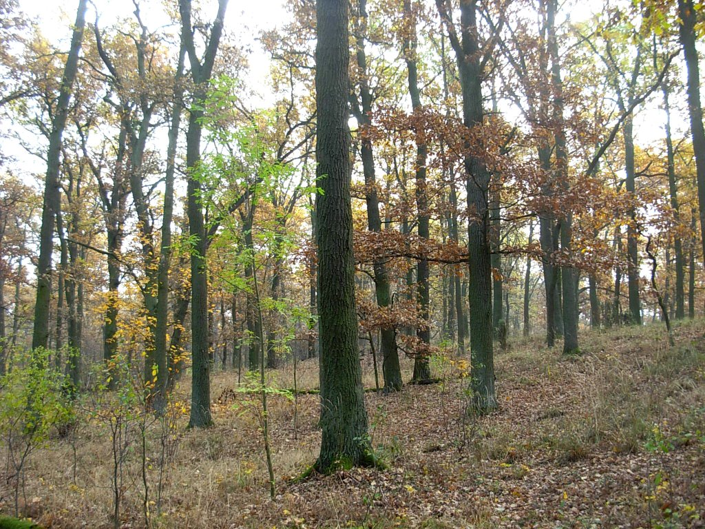 Nature reserve Dziki Ostrów